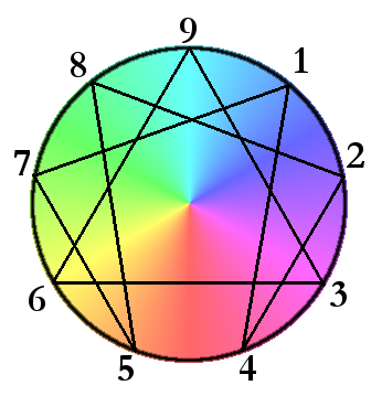 This is a colorful gradient version of the Enneagram figure or diagram.